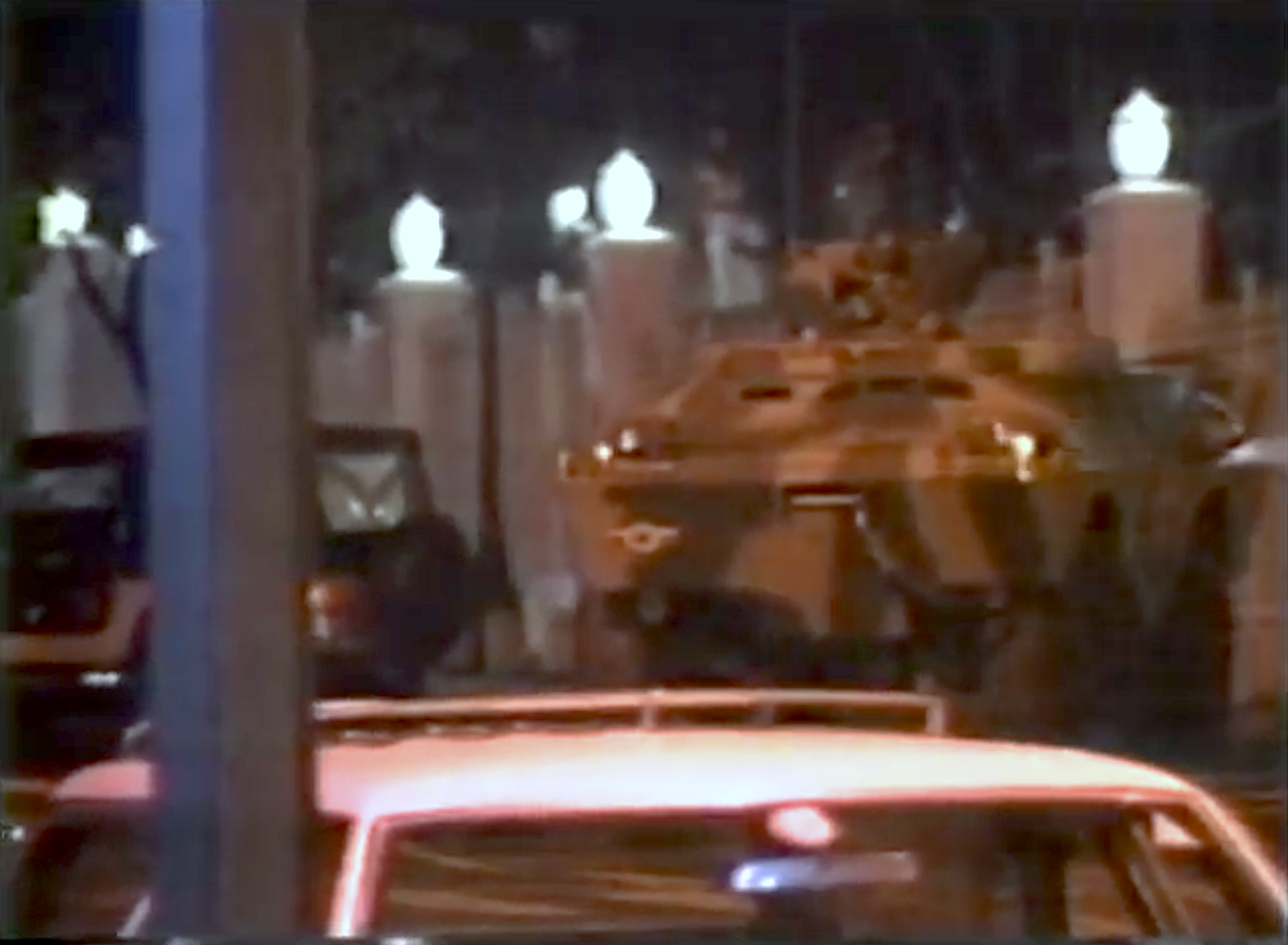 An armored personnel carrier drives through the streets of Caracas during the 1992 Venezuelan coup